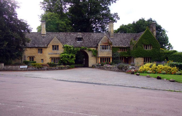 Gatehouse to the Prebendal, Priest End, Thame, Oxfordshire